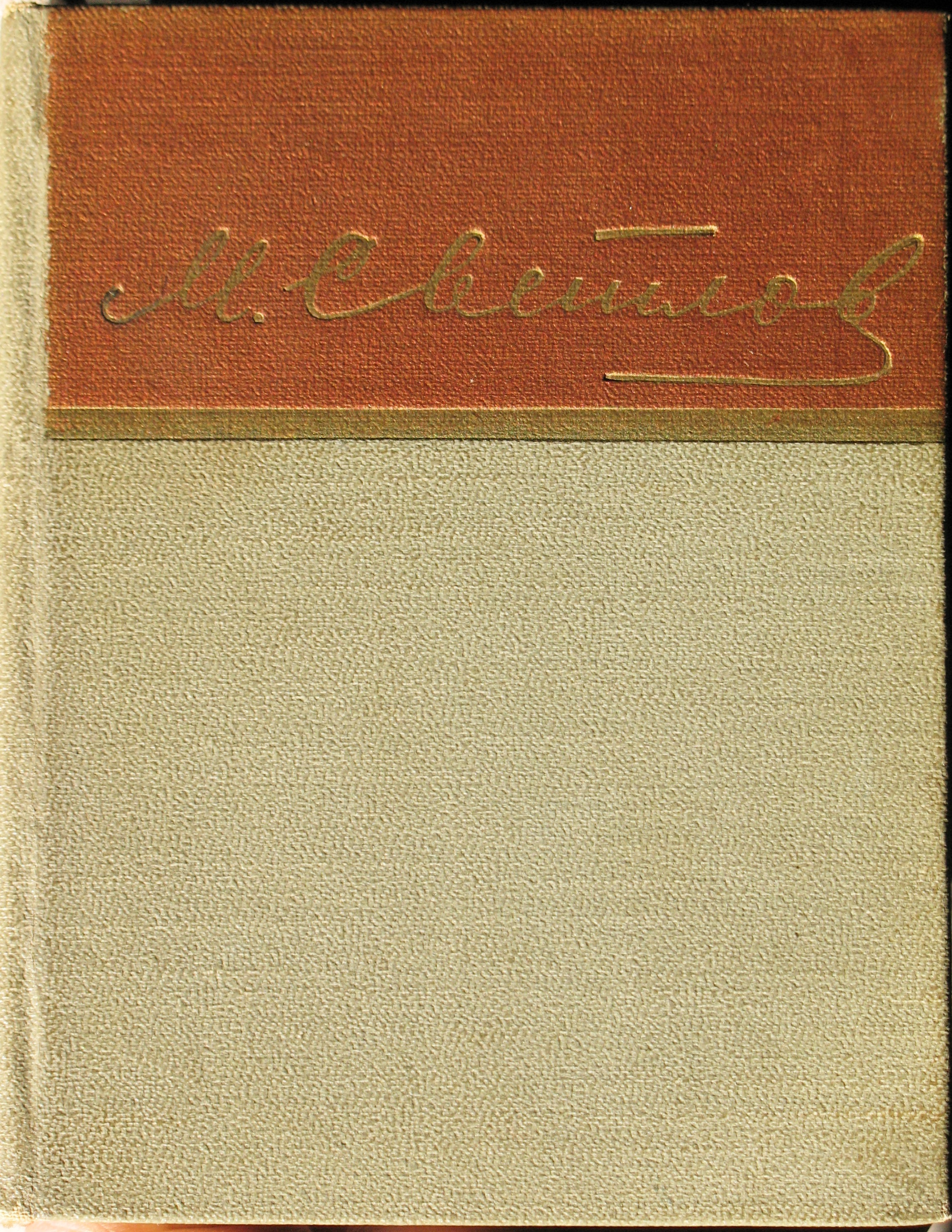 Mikhail Svetlov signature on his book.